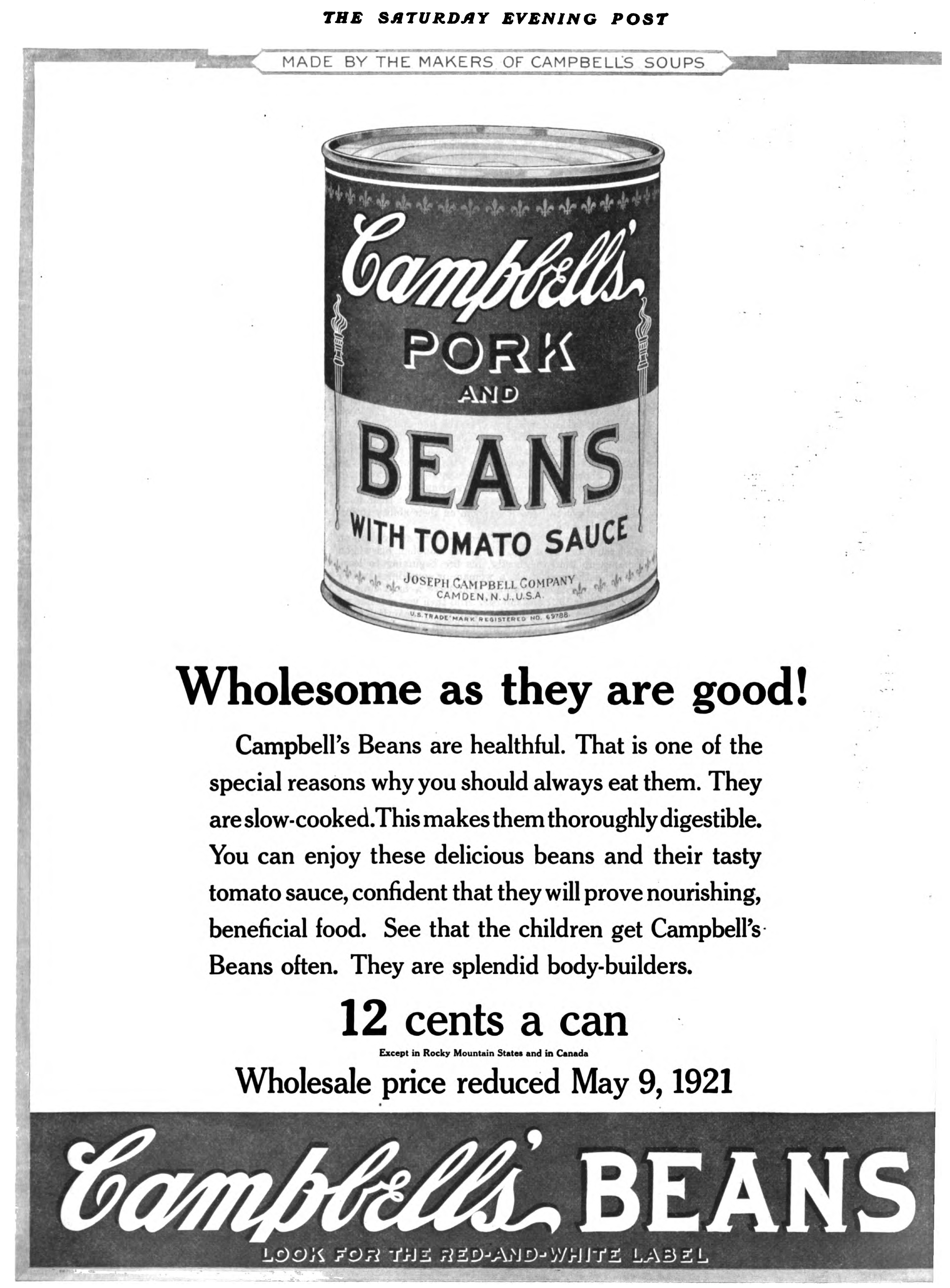 Joseph Campbell Company canned beans advertisement in the Saturday Evening Post, June 18, 1921, volume 193, issue 6, page 21.